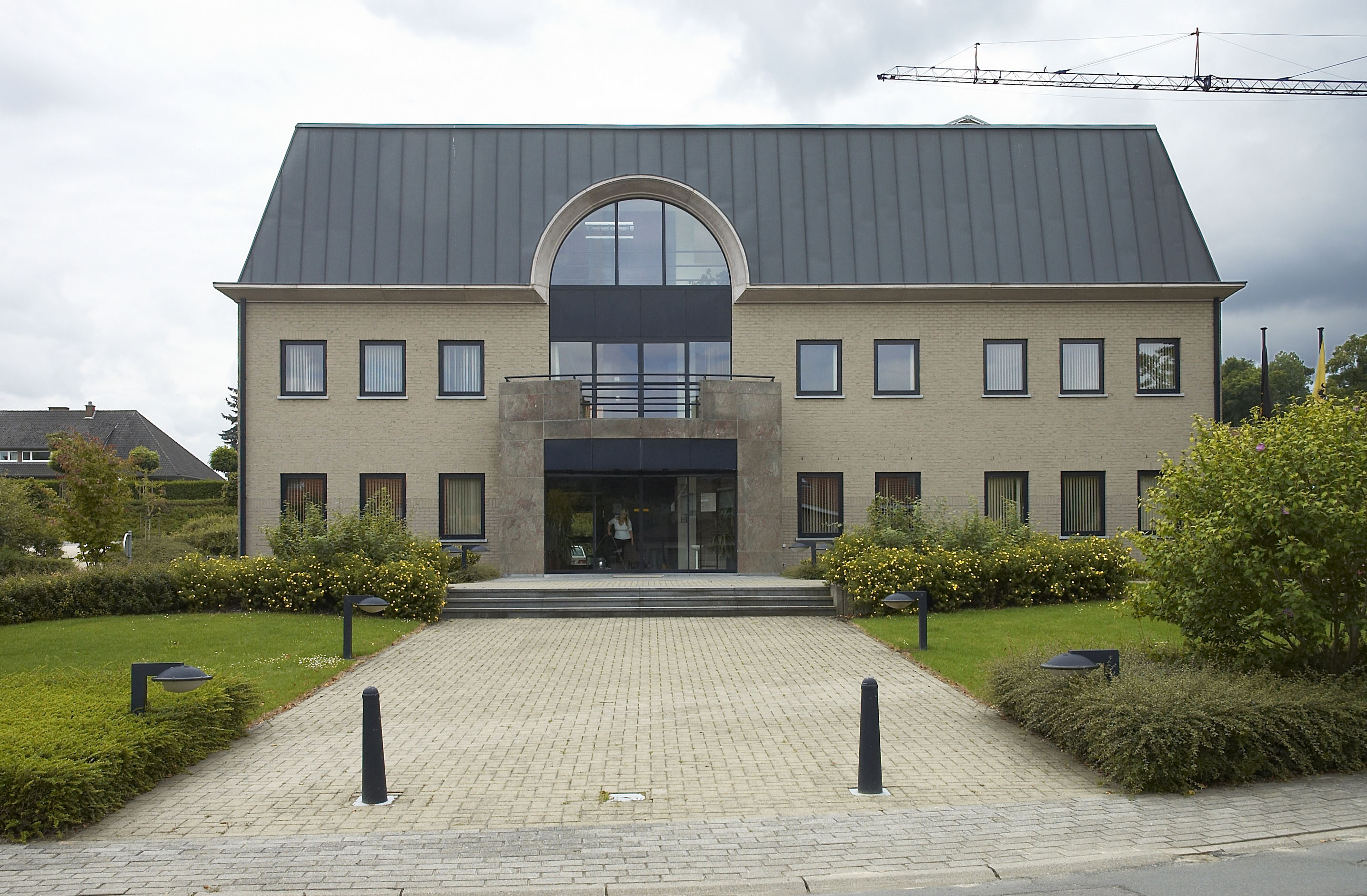 Town hall of Vaalbeek, Belgium